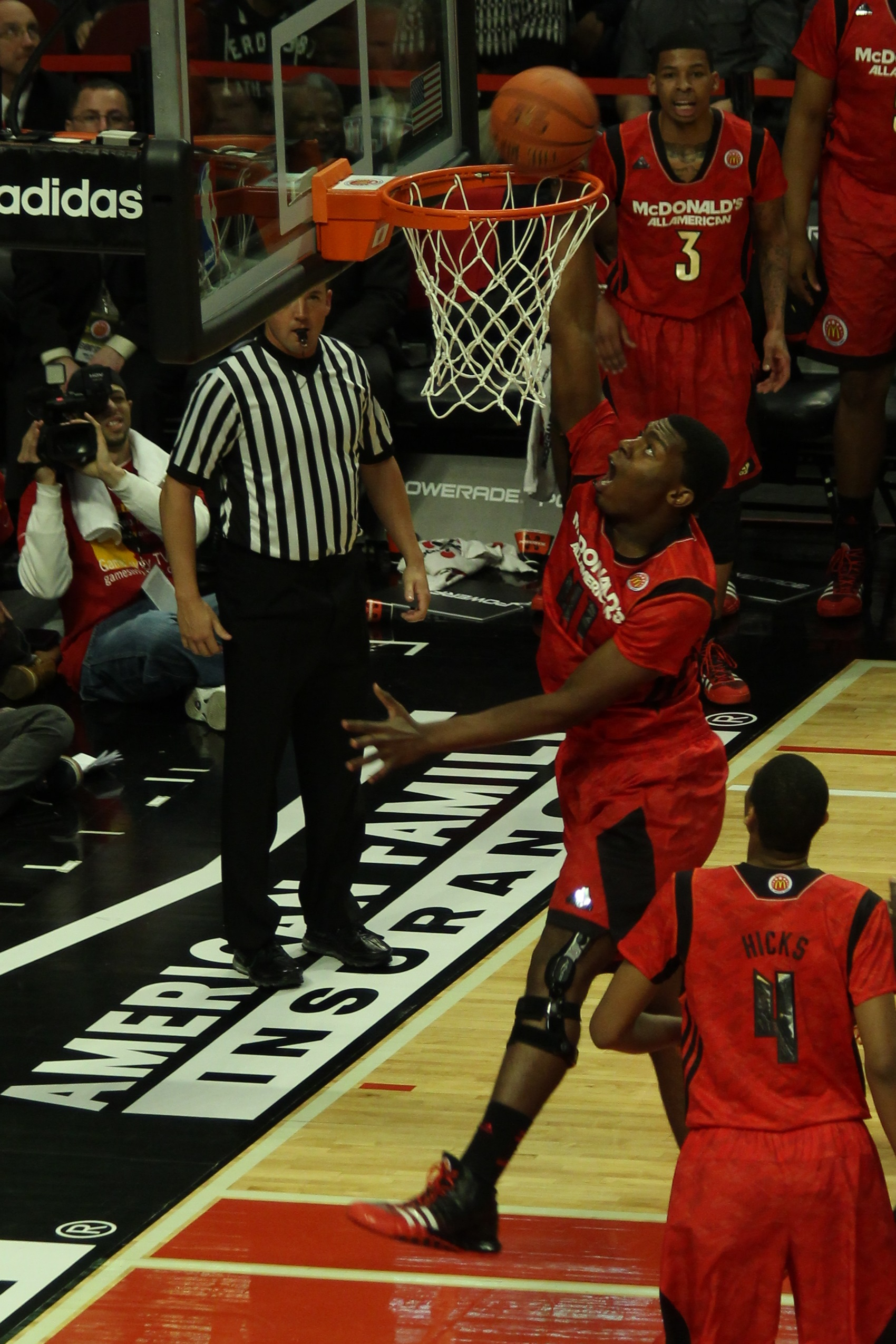 Dakari Johnson dunking in the w:2013 McDonald's All-American Boys Game